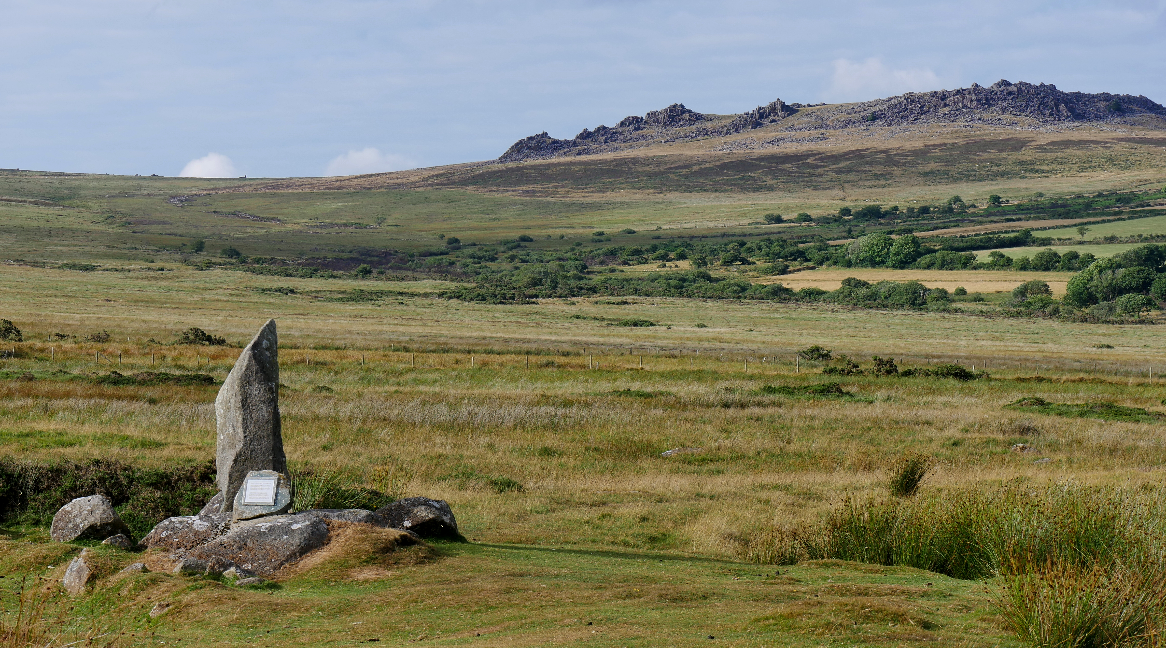 Carn Menyn - Memorial A new standing stone. The plaque on the base of this stone states that it is: "One of two brought down from the crest of Carnmenyn by an RAF Chinook helicopter on 6th April 1989. They were donated by the Lord of the Manor of Mynachlog-ddu to English Heritage, one to be displayed at Stonehenge, the other to be erected here to indicate their place of origin. In May and June 1989, the other one was carried from here to Stonehenge, with the cooperation of Preseli Pembrokeshire District Council, as part of the celebrations marking the Silver Jubilee of the Cystic Fibrosis Research Trust." I heard that there is a story about the other stone (ie the one heading for Stonehenge) somehow falling off the boat that was carrying it across the Bristol Channel, and having to be brought back to the surface before it could continue. The story appears to be true, as the BBC News website reported it here [1] at about the same time. (Thanks to 'ceridwen' for finding this link.)